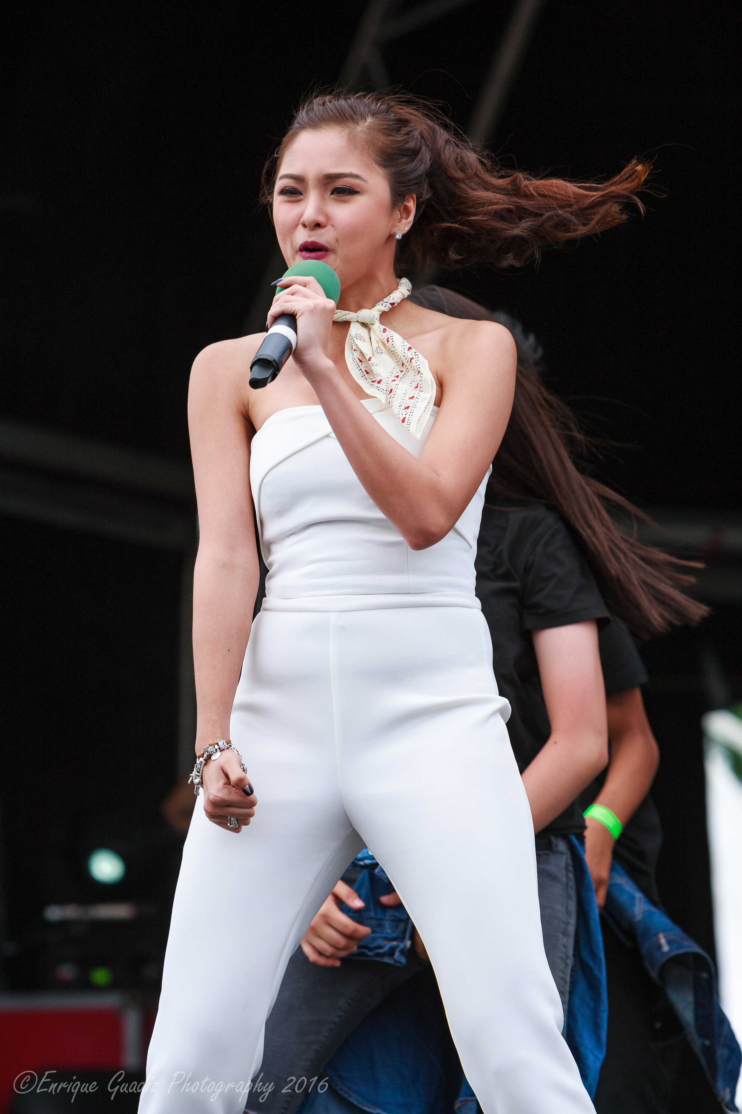 Barrio Fiesta sa London - Sunday